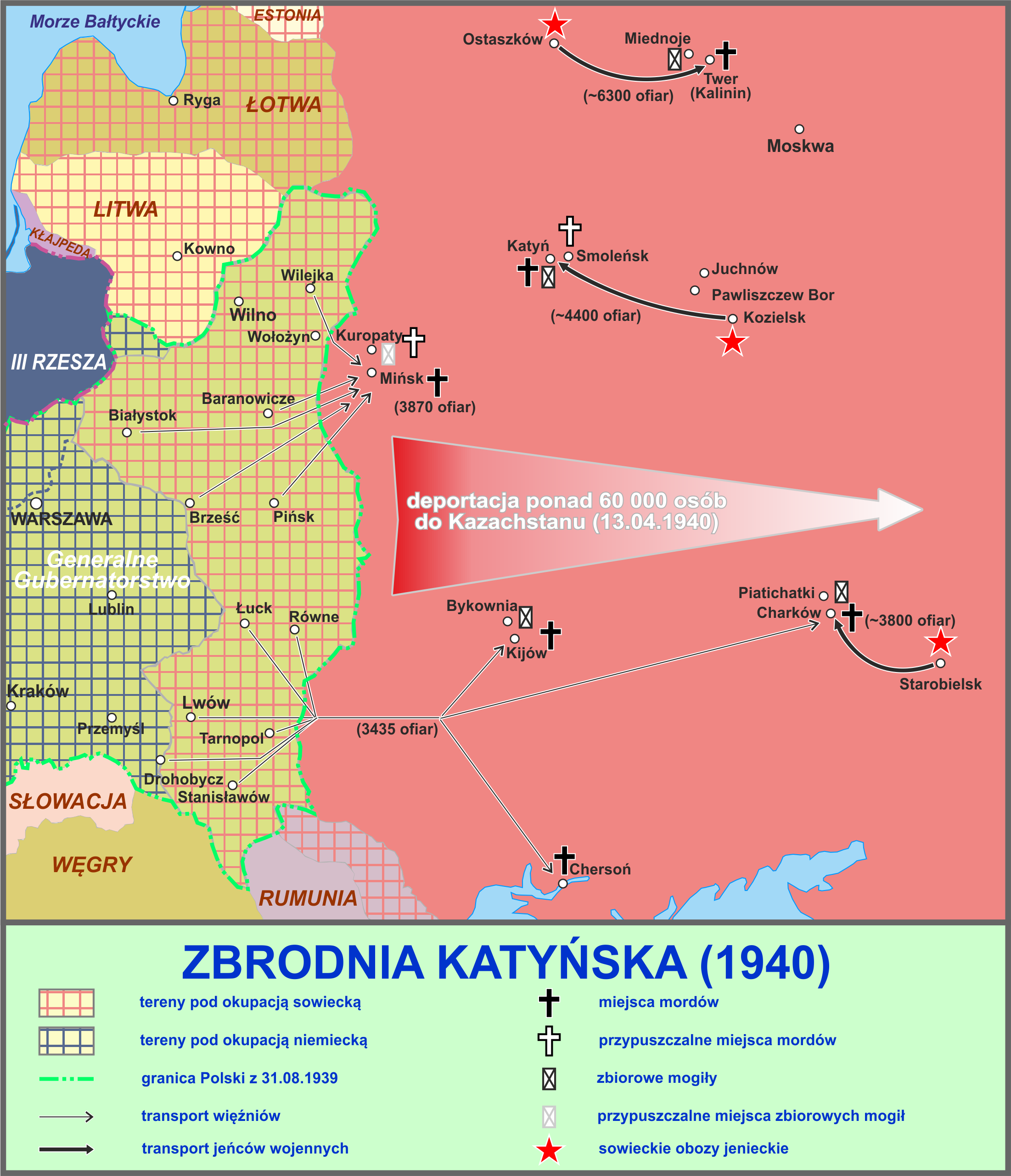 Map of the Massacre of Katyn